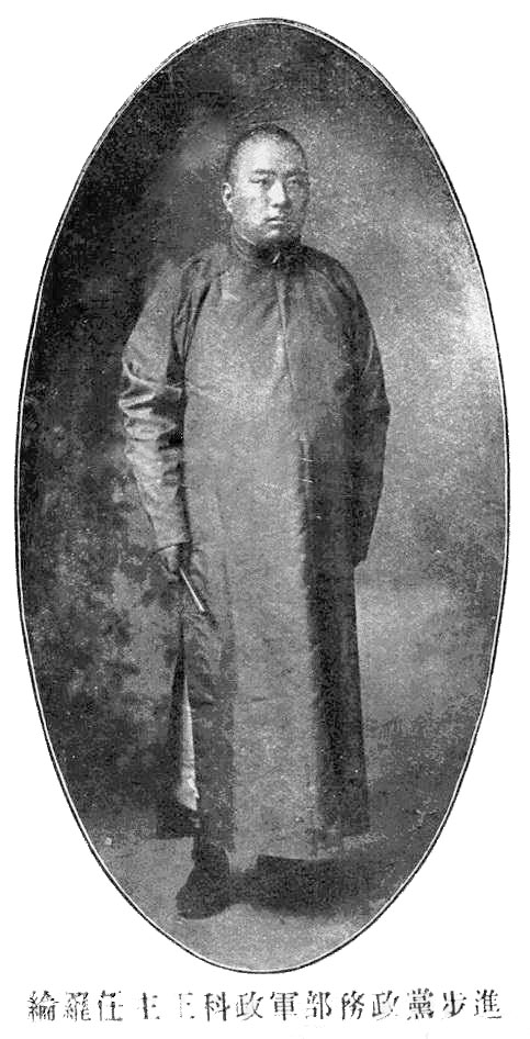 Luo Lun (1876－1930)